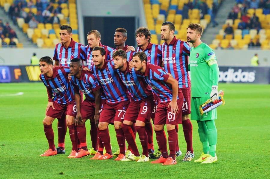 Trabzonspor